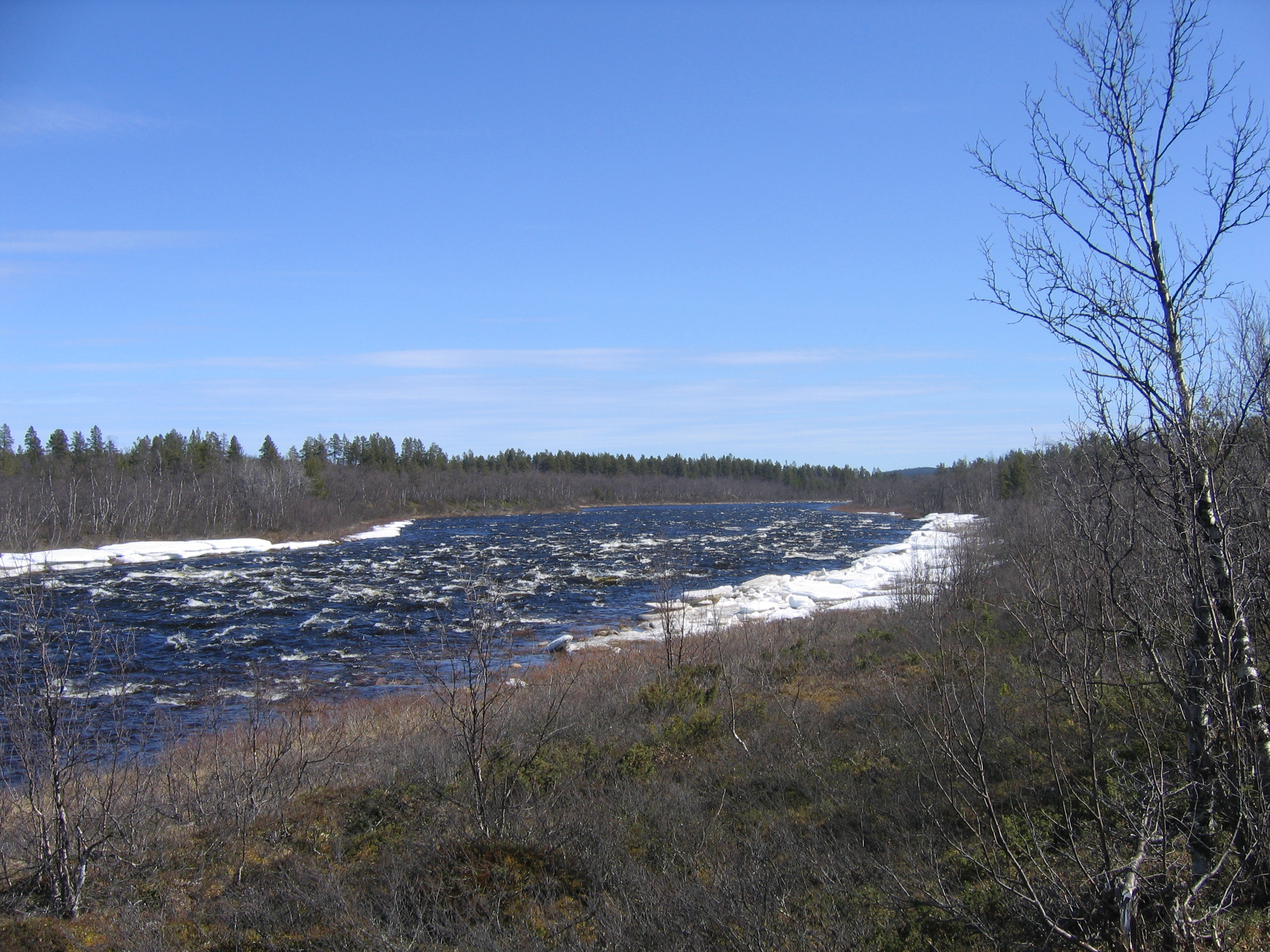 The Rautas River. The picture was taken north of Báhpagobba. From Karhuniemi, just west of Kiruna, a footpath leads north via Báhpagobba and Kurravaaranjänkkä and ends at the Rautas River between Käyrävuopio and Hansisaari (near Kurravaara). The picture was taken in late spring.